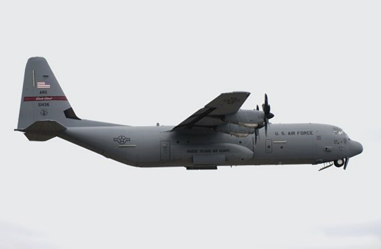 A U.S. Air Force Lockheed Martin C-130J-30 Hercules (s/n 05-1436) of the 143rd Airlift Wing, Rhode Island Air National Guard puts up its front landing gear after taking off at Quonset Air National Guard Base, North Kingstown, Rhode Island (USA).